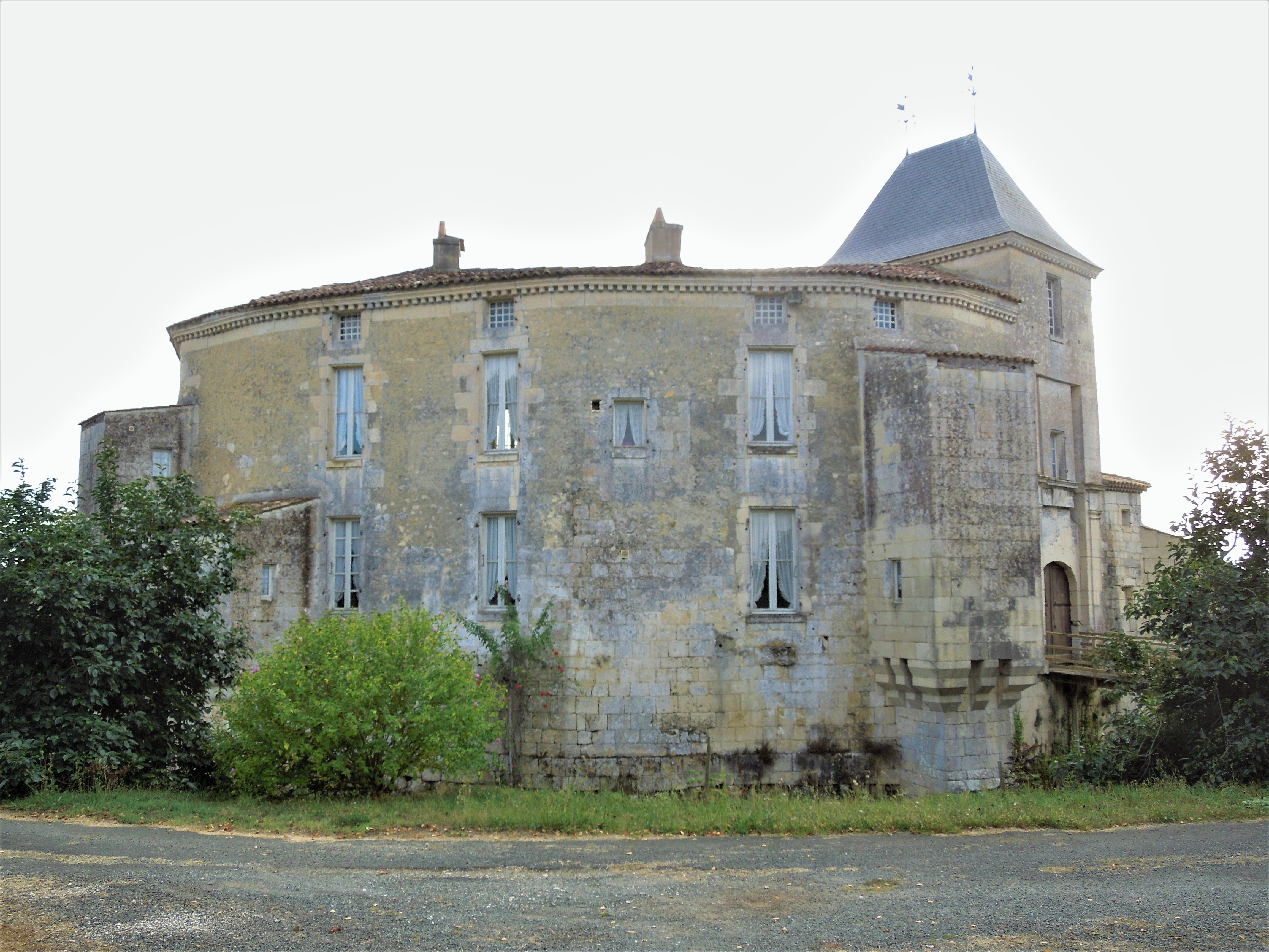 Château d'Ardennes (Fléac-sur-Seugne), viewed from northeast